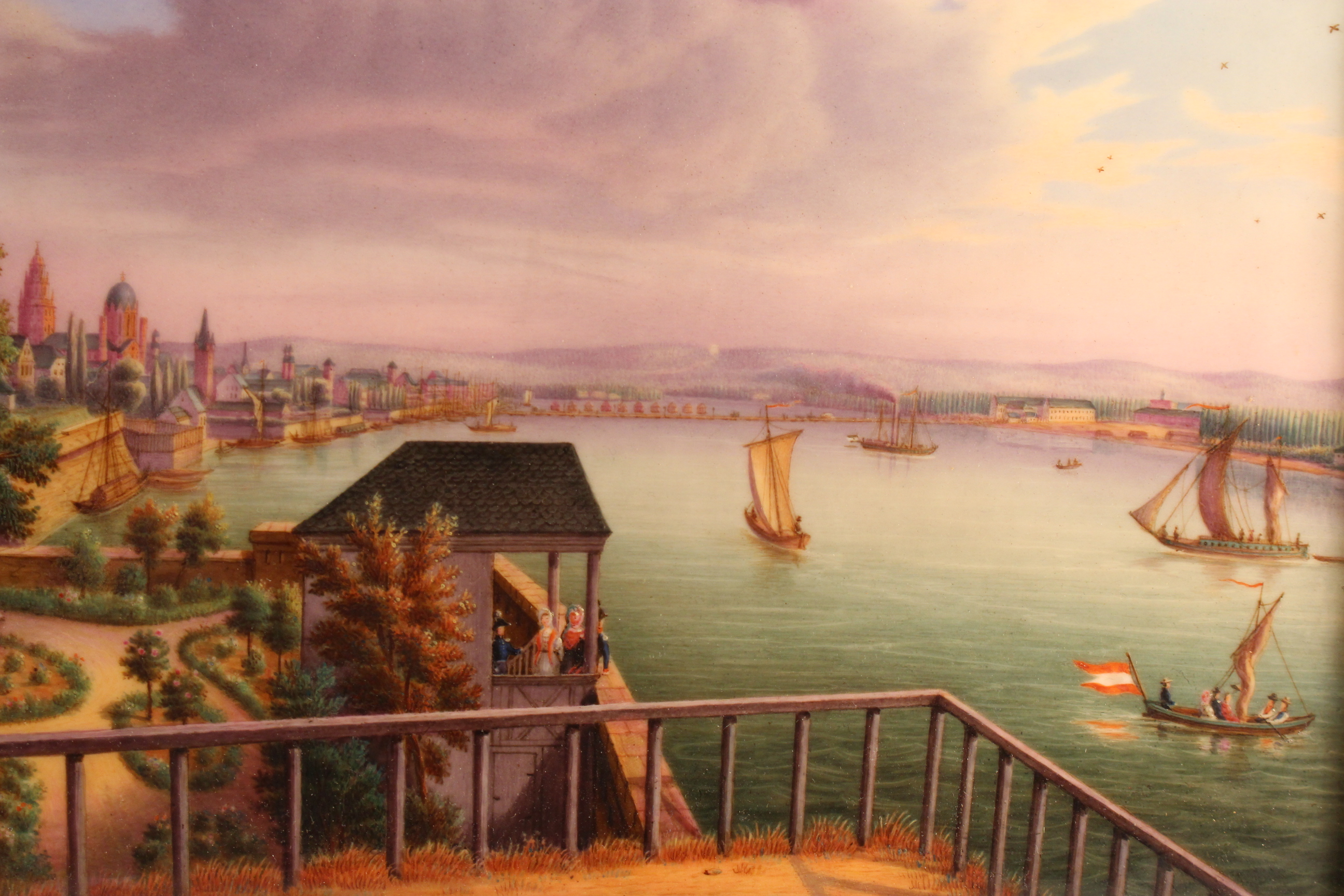 City view of the city of Mainz from the southern bank of the Rhine (H. Litfas, ca. 1838/1840), porcelain picture plate, verso in black solder signed "H. Litfas"